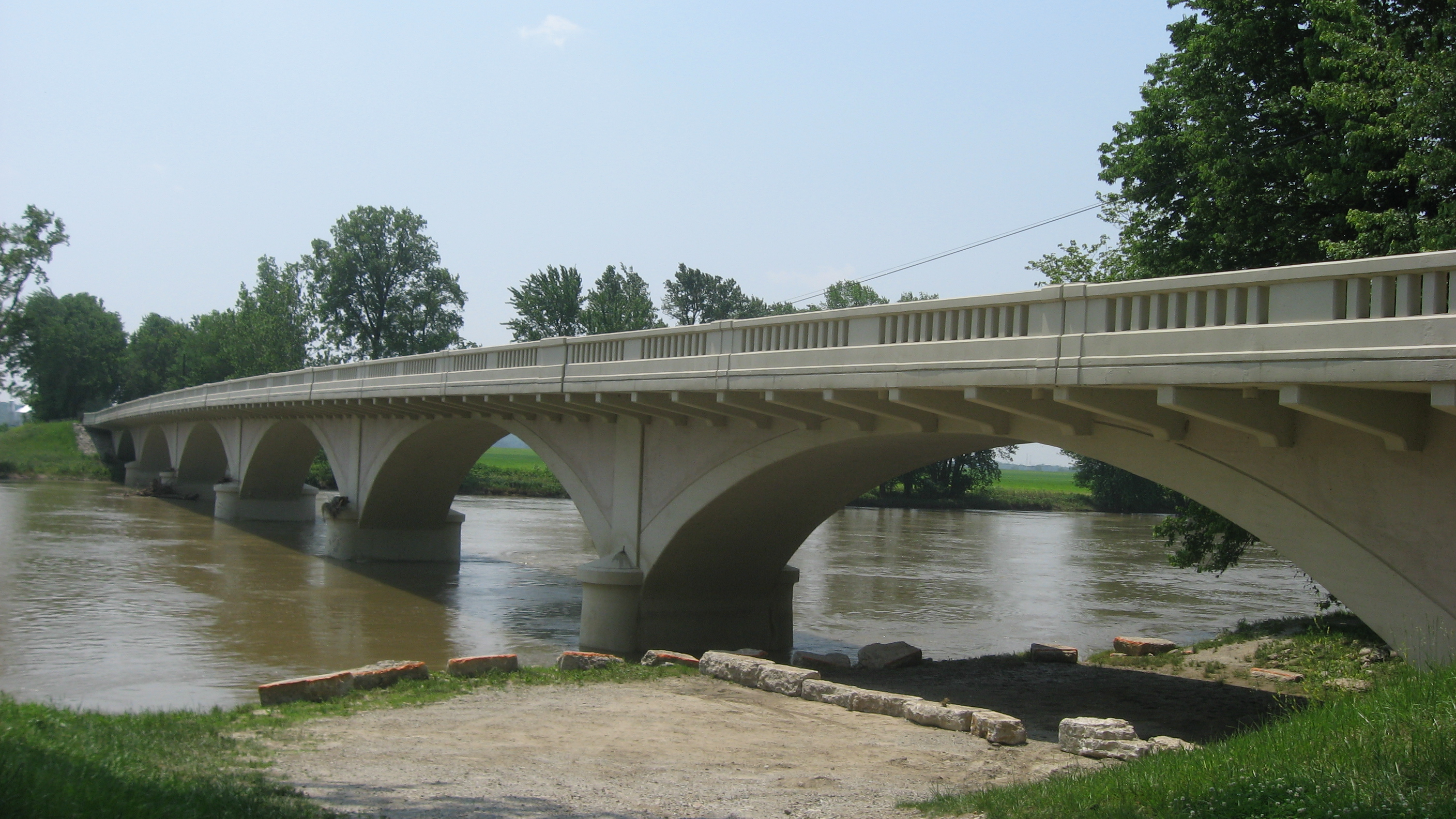 Eastern (upstream) side of the Carrollton Bridge, which carries Carrollton Road over the Wabash River north of Delphi between Tippecanoe and Deer Creek Townships in Carroll County, Indiana, United States. Built in 1927, it is listed on the National Register of Historic Places.